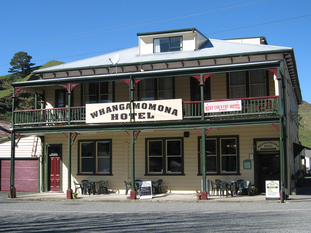 Halfway between Stratford and Taumarunui is the settlement of Whangamomona. There isn't much there these days, but the hotel was rather good. Nice potato wedges, nice locals, and over 100 years worth of rugby team photos up on the walls. New Zealand Historic Places Trust Category II; register number 927.